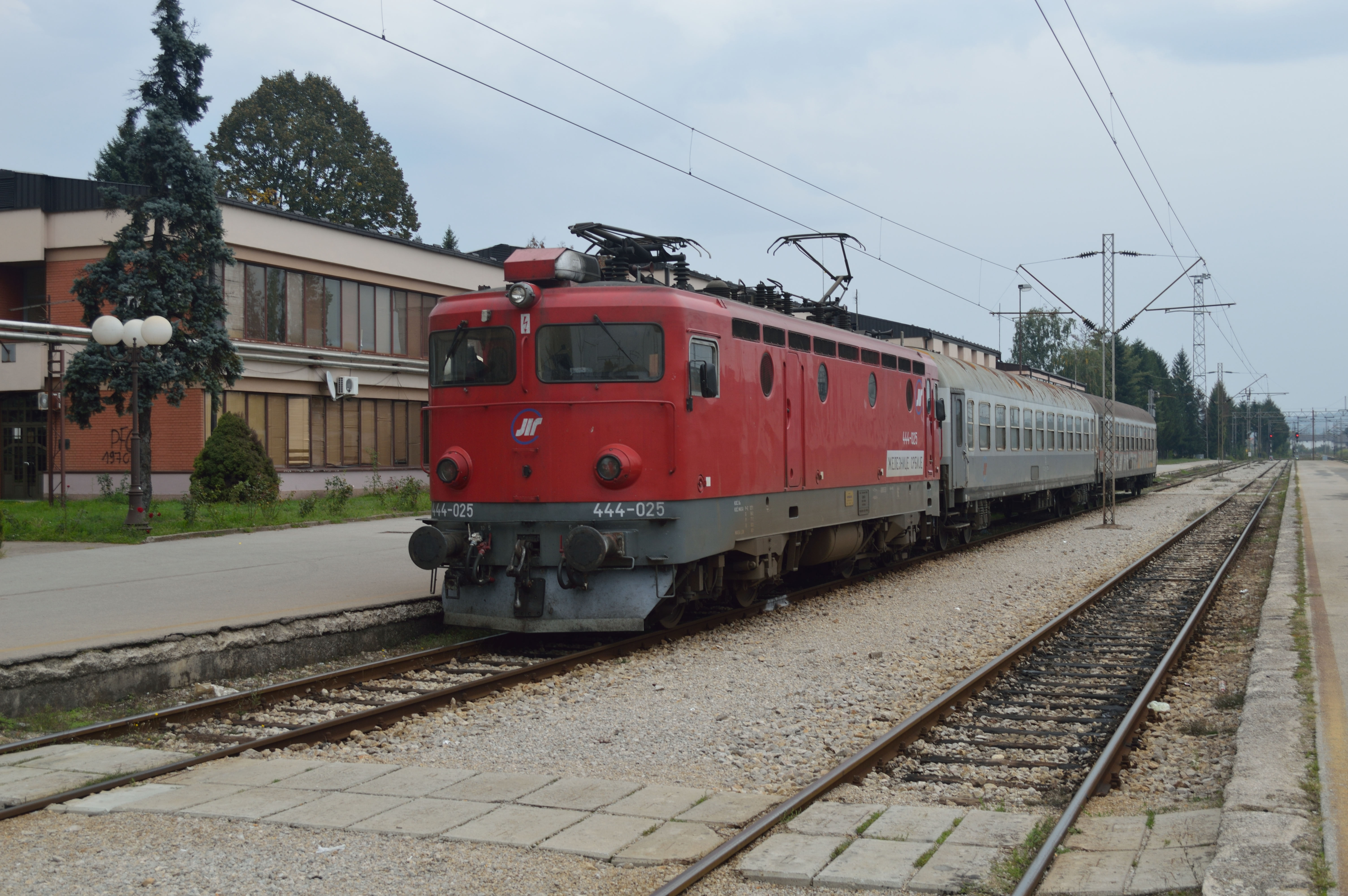 Balkans Rail Trip, Autumn 2013 - Day Seven 444.025 at the end of its journey on train 4834, 14:50 Kraljevo to Požega taken on 29 September 2013.